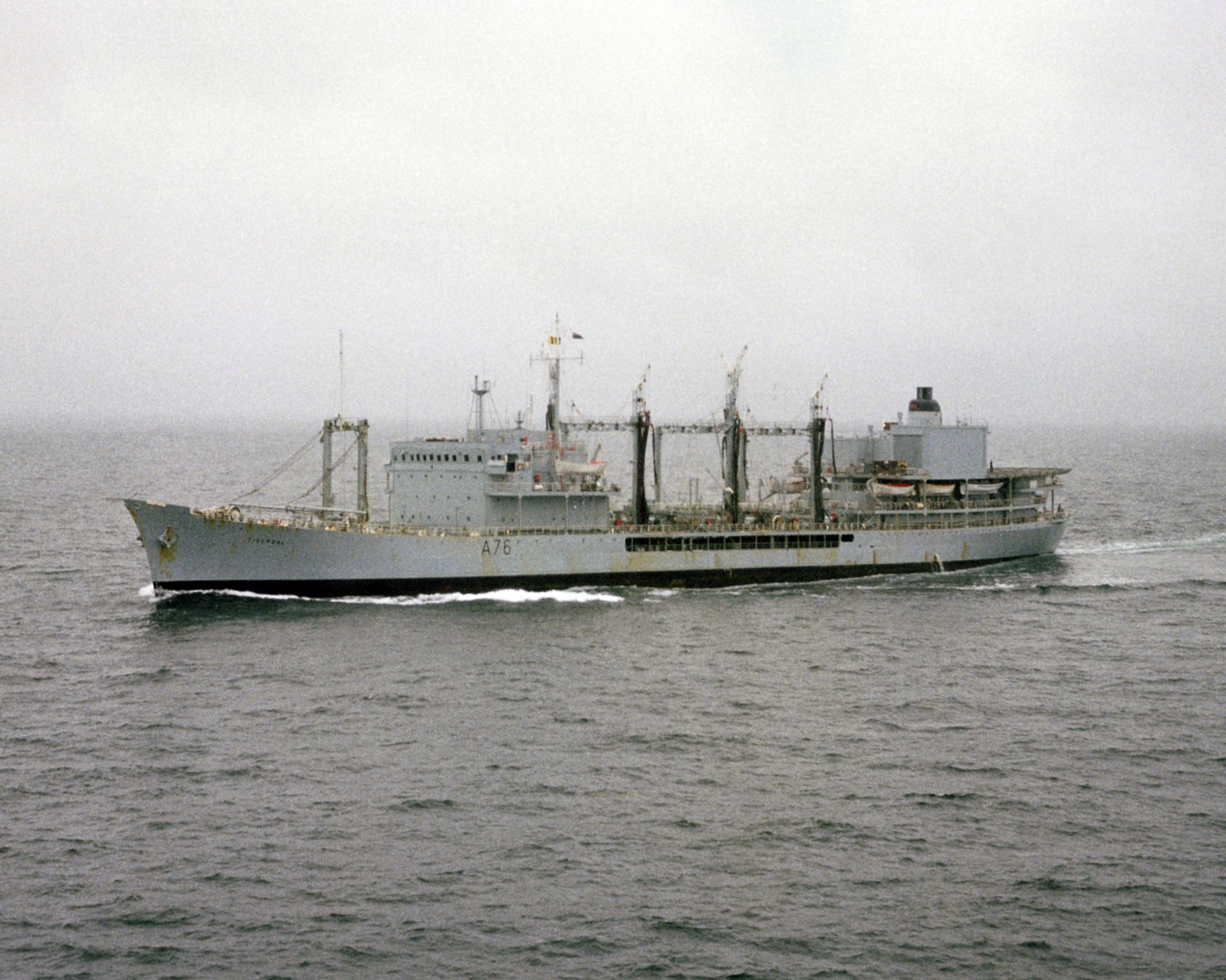 The British large fleet tanker RFA Tidepool (A76) underway, circa in early 1982.